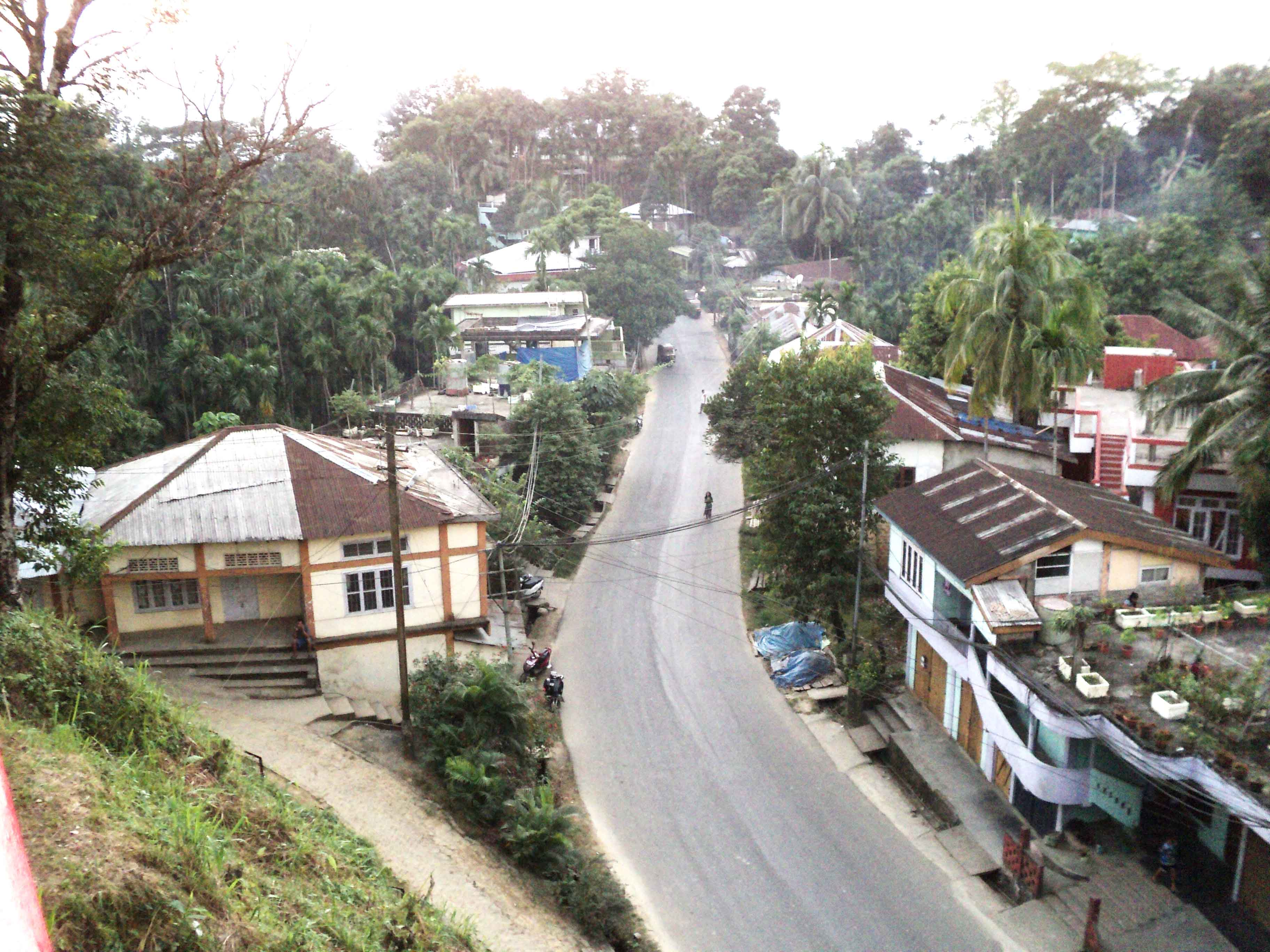 Banglaveng